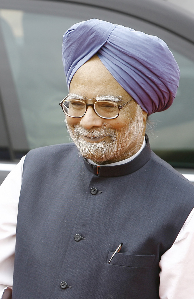 Manmohan Singh, current prime minister of India.